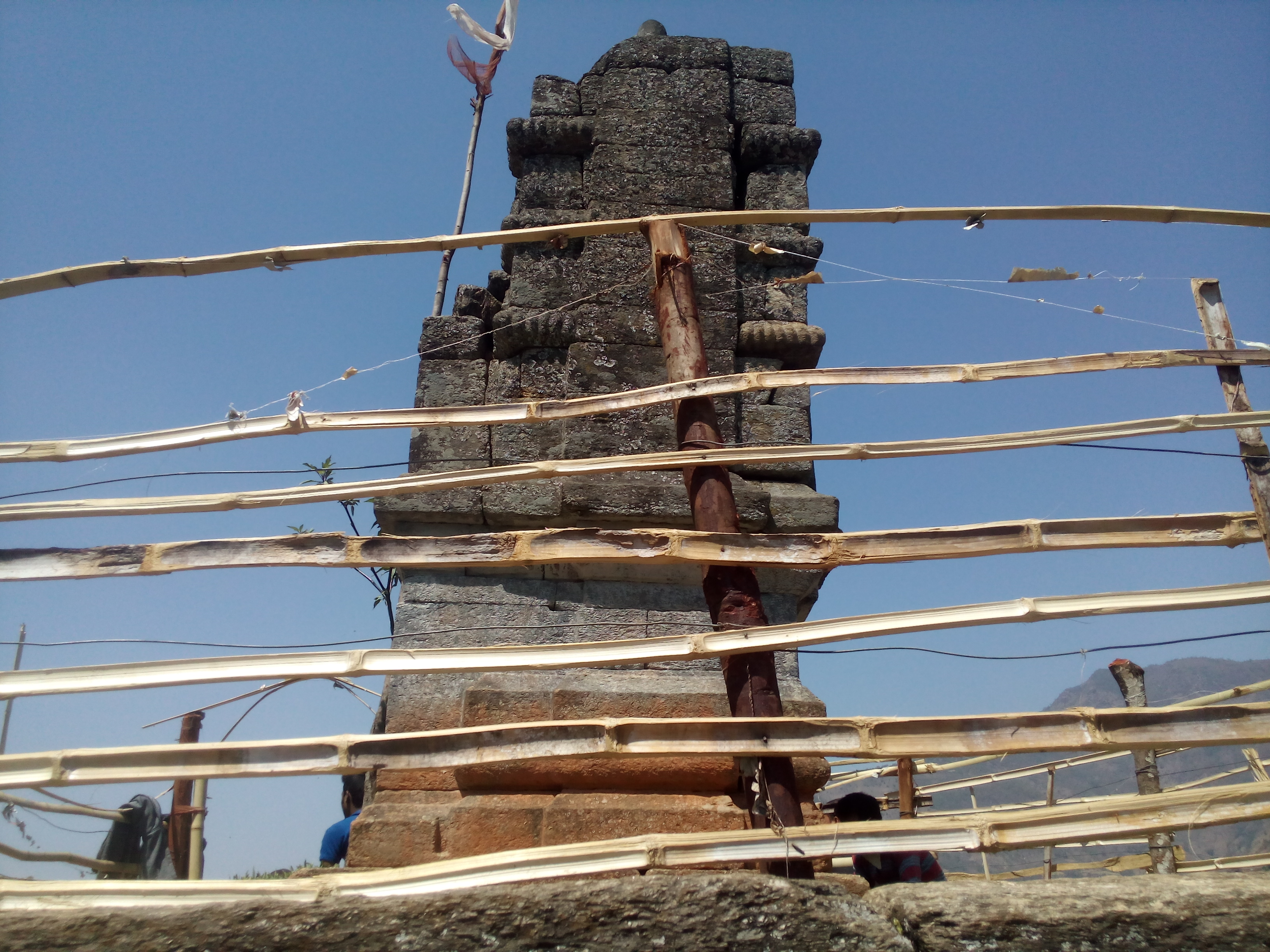 नेपाली: This image is the property of Krishna Bahadur Chand Sodari from Kalagaun-07, Achham